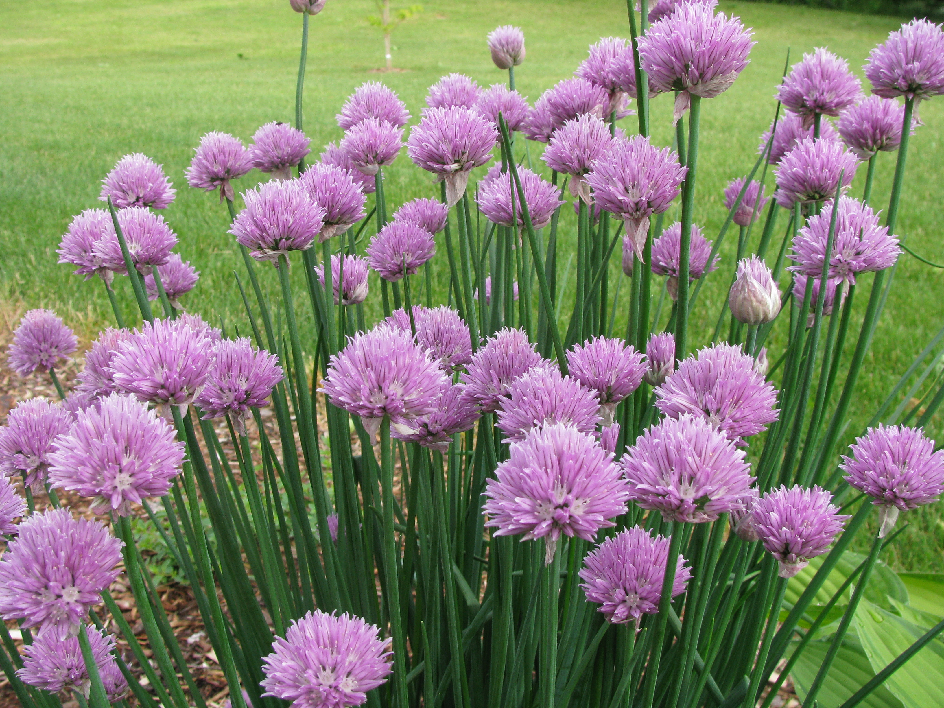 A clump of Allium schoenoprasum en , commonly know as chives flowering in New Hampshire.